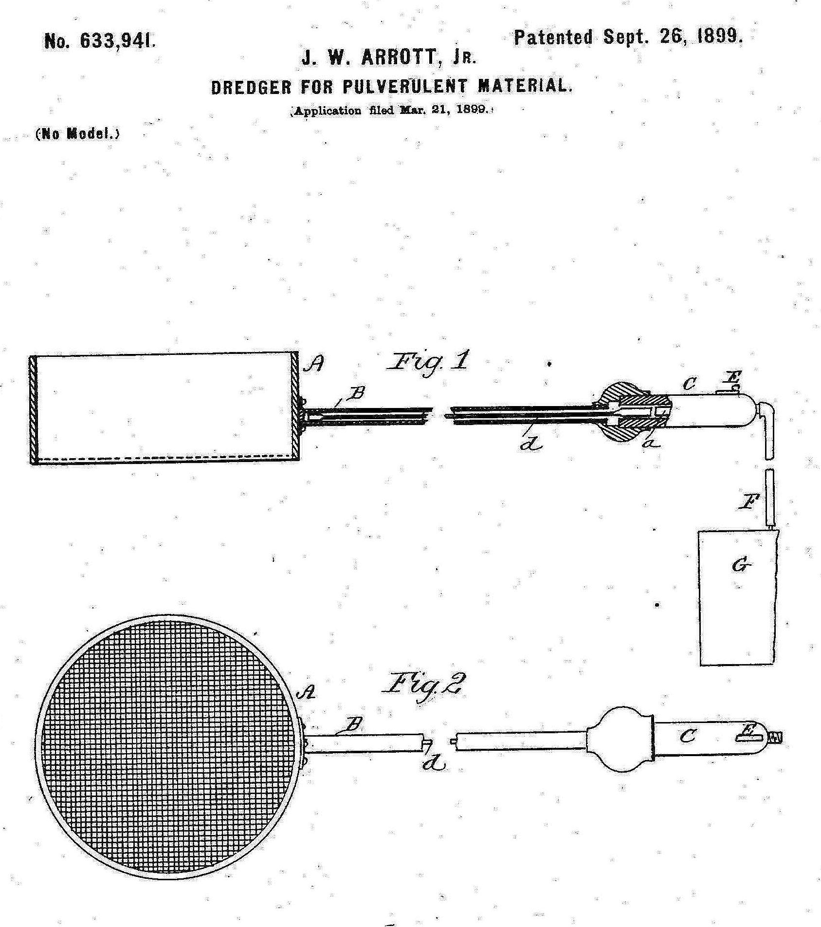 This is a patent drawing of the automatic dredger from the patent involved in Standard Sanitary Mfg. Co. v. United States